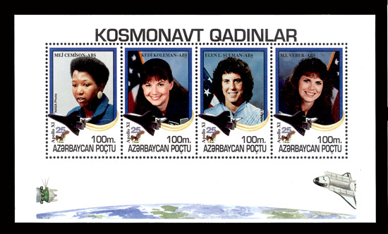 Stamp of Azerbaijan From left to right: Mae Jemison, Cady Coleman, Ellen Shulman and Mary Weber